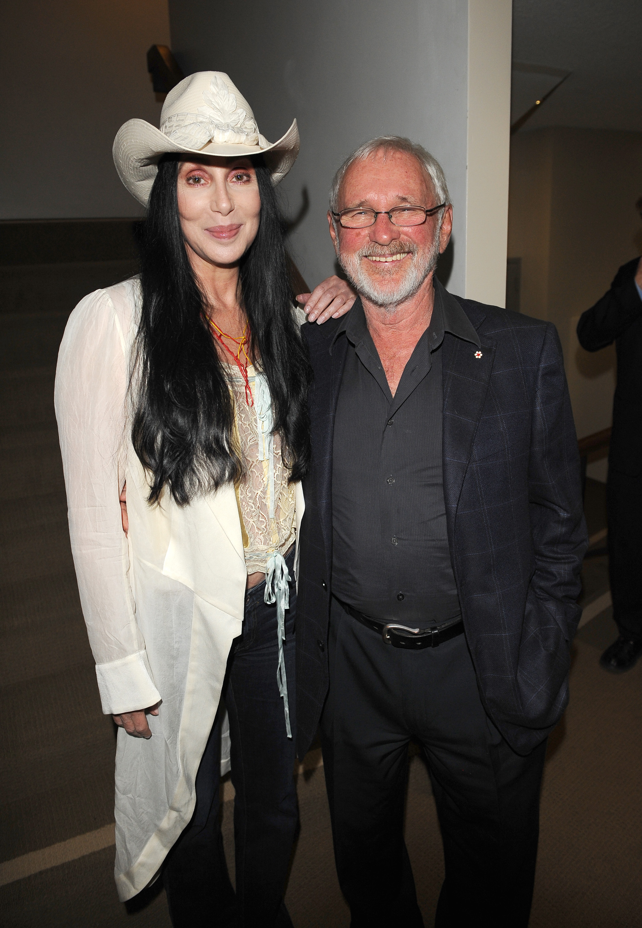 Cher and Norman Jewison at "A Tribute to Norman Jewison" at LACMA in Los Angeles on April 16, 2009. Photo by George Pimentel.